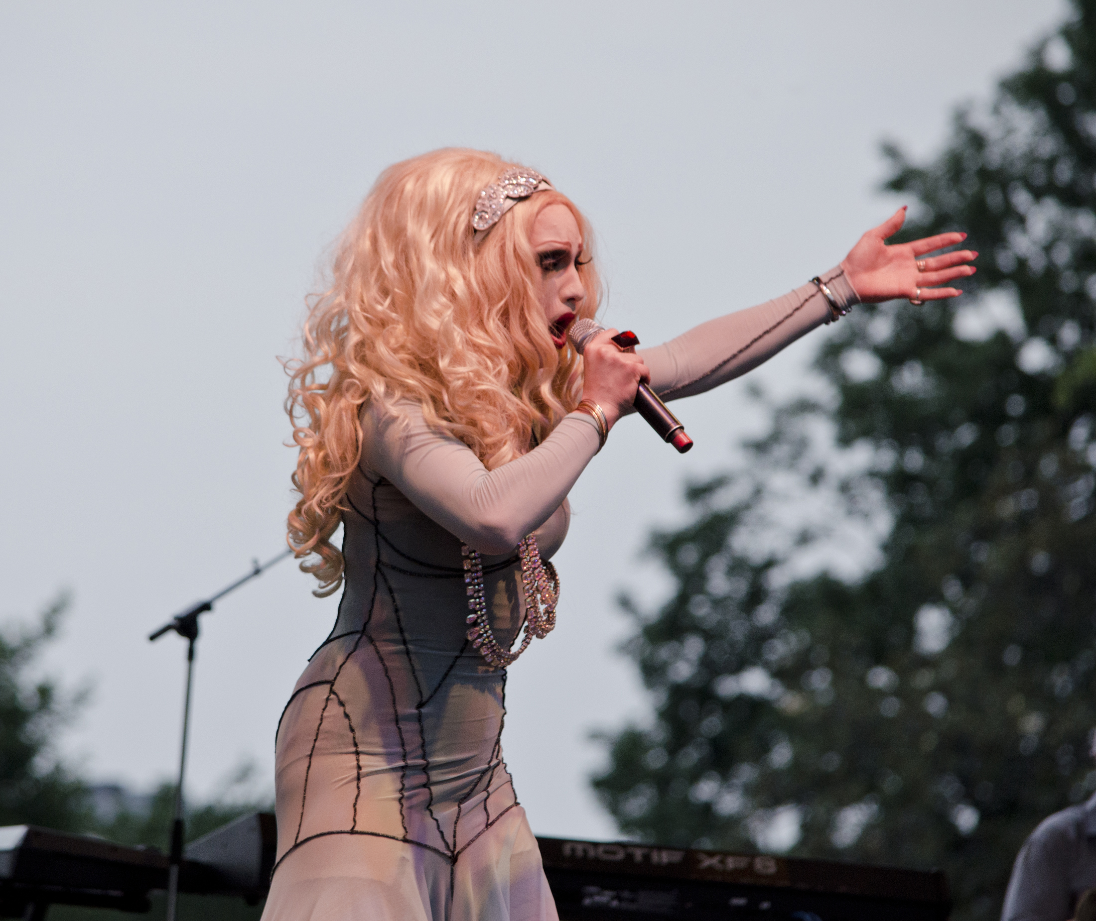 Jinkx Monsoon 005 - DC Capital Pride street festival - 2013-06-09